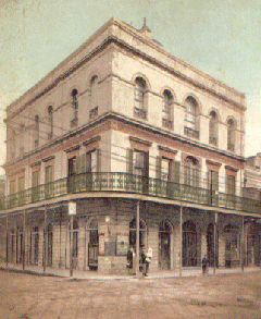 Delphine LaLaurie mansion